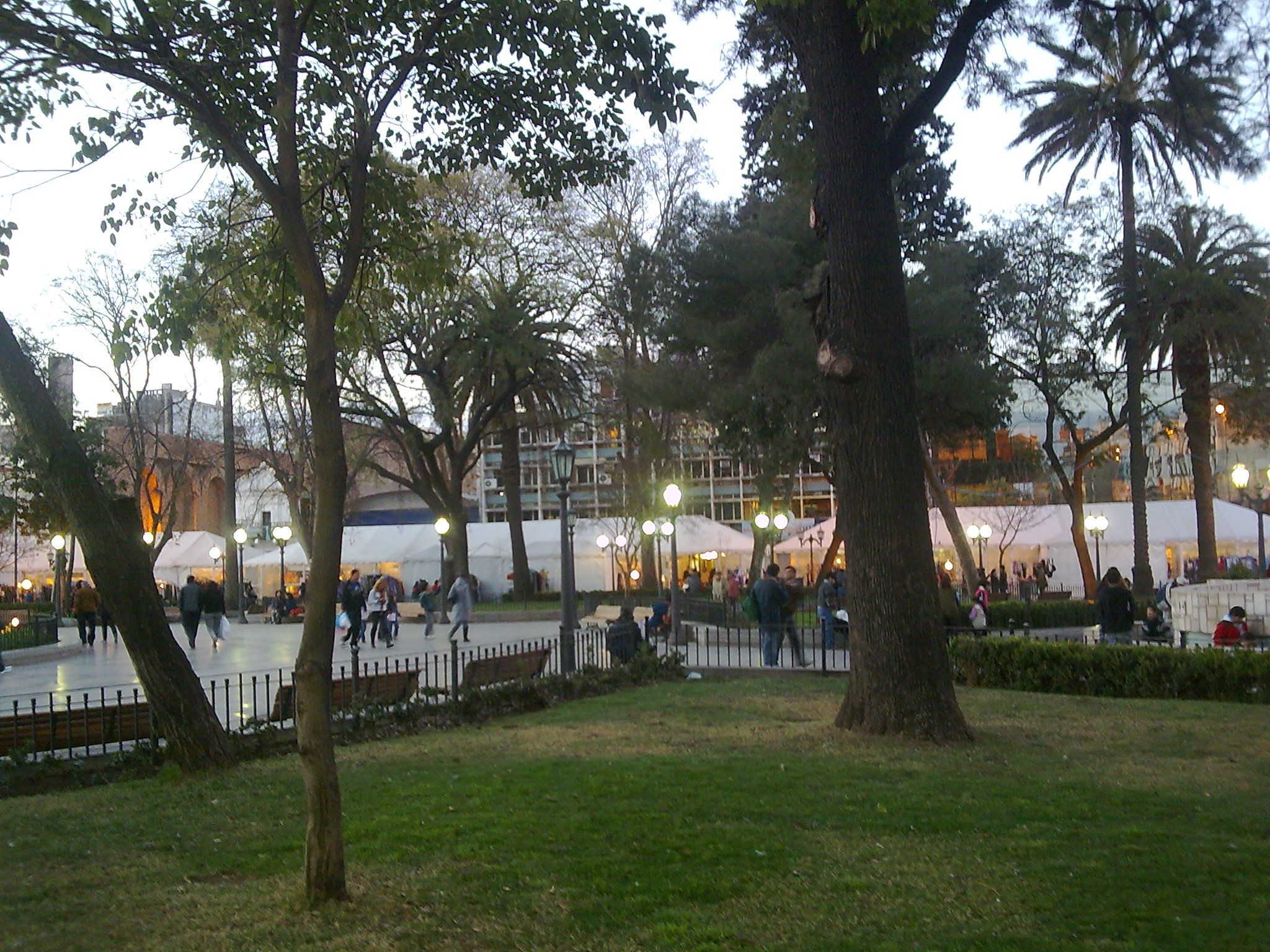 Book fair of Cordoba, Argentina.